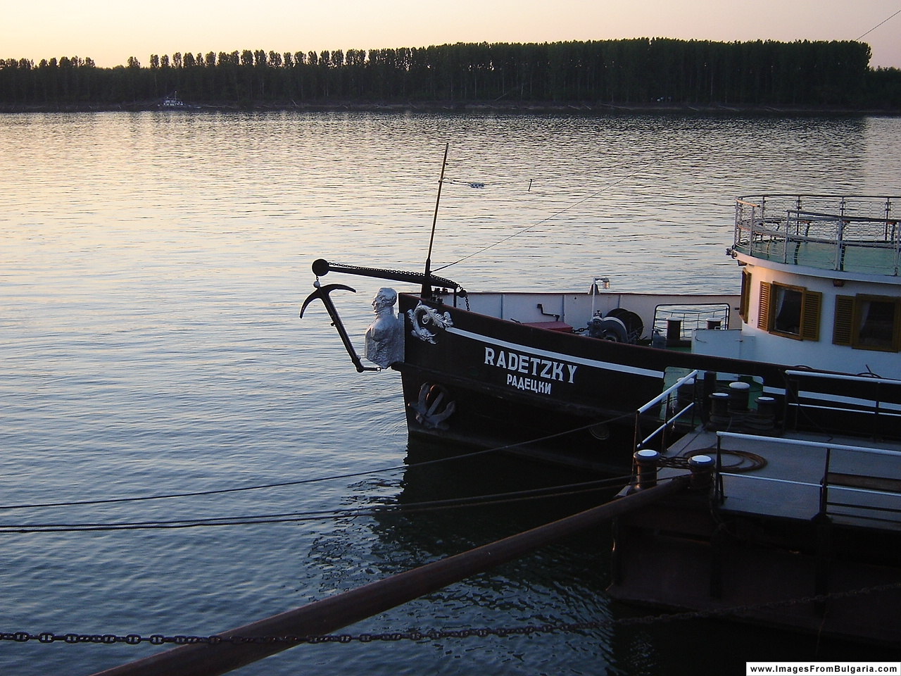 Radetzky (steamship) in the Danube at Kozloduy, Bulgaria